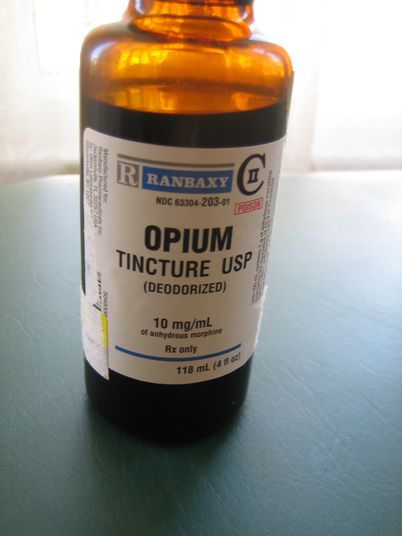 Bottle of Laudanum/Opium tincture